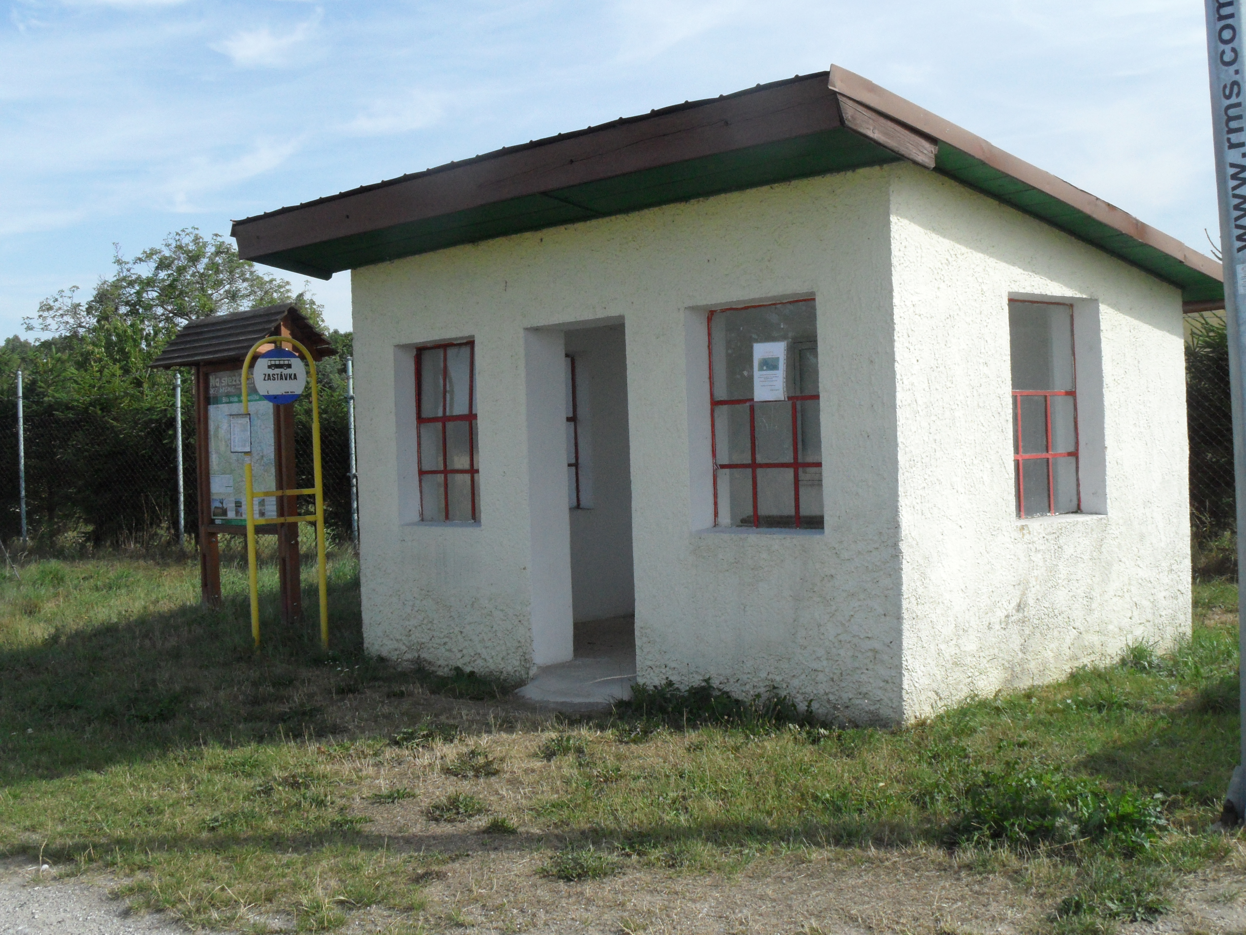 Kamenička (Bílá Voda) G. Bus Stop. Jeseník District, the Czech Republic.